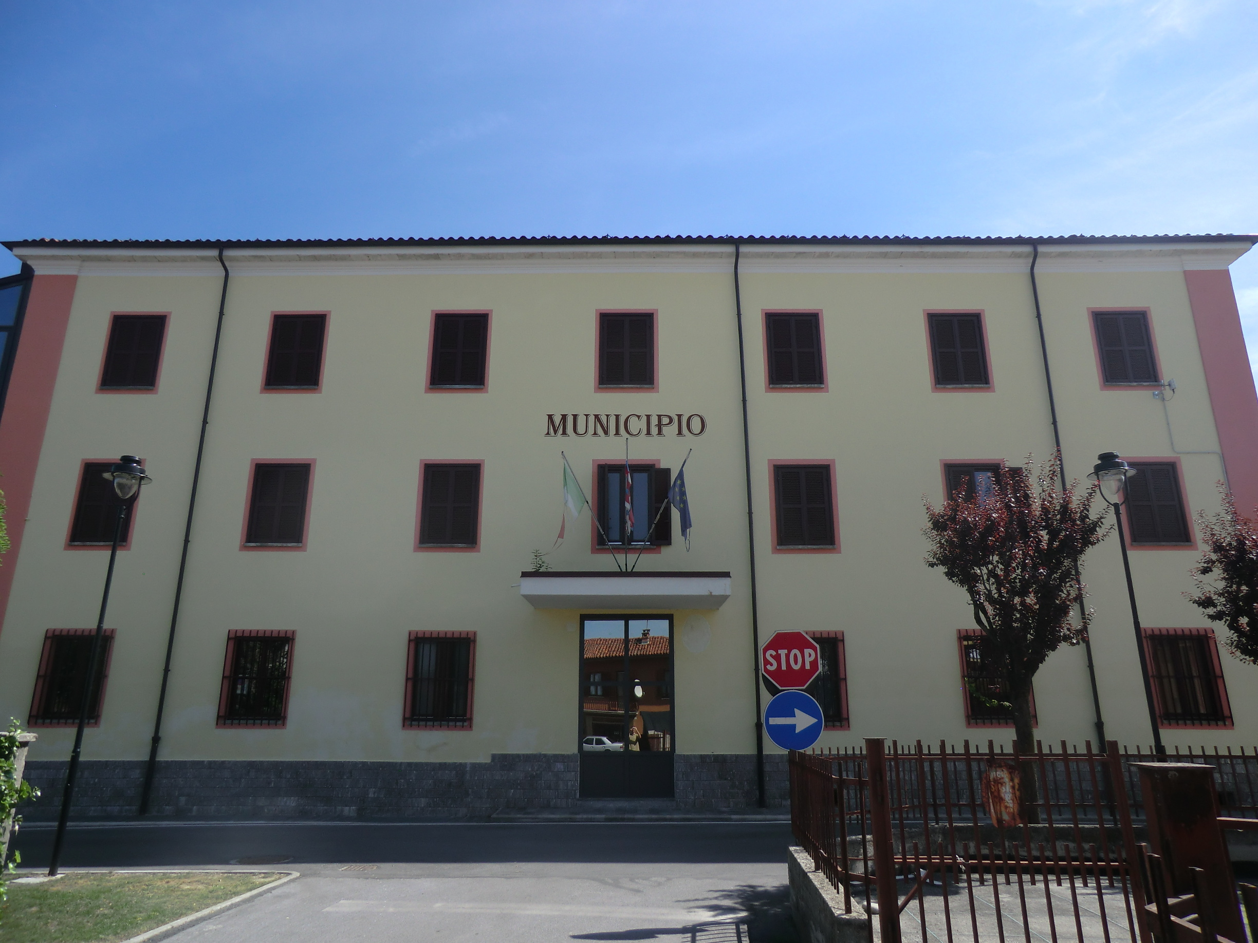 Pianfei (Cuneo - Italy): town hall